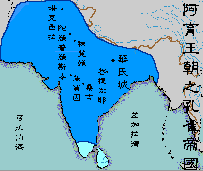 A political map of the Mauryan Empire, including notable cities, such as the capital Pataliputra, and site of the Buddha's enlightenment. Original picture was uploaded here. The Classical Chinese Modification is made by User:Itsmine. Dark blue represents the extend of the Mauryan Empire under Emperor Ashoka, light blue represents possible tributary states, vassals or allies. Green blue represents notable rivers, black represetns modern political borders, and brown represents the border of South Asia. Pataliputra, Sanchi, Ujjain, Bodh Gaya, Taxila, Mathura, Indraprastha and Pattala are shown.